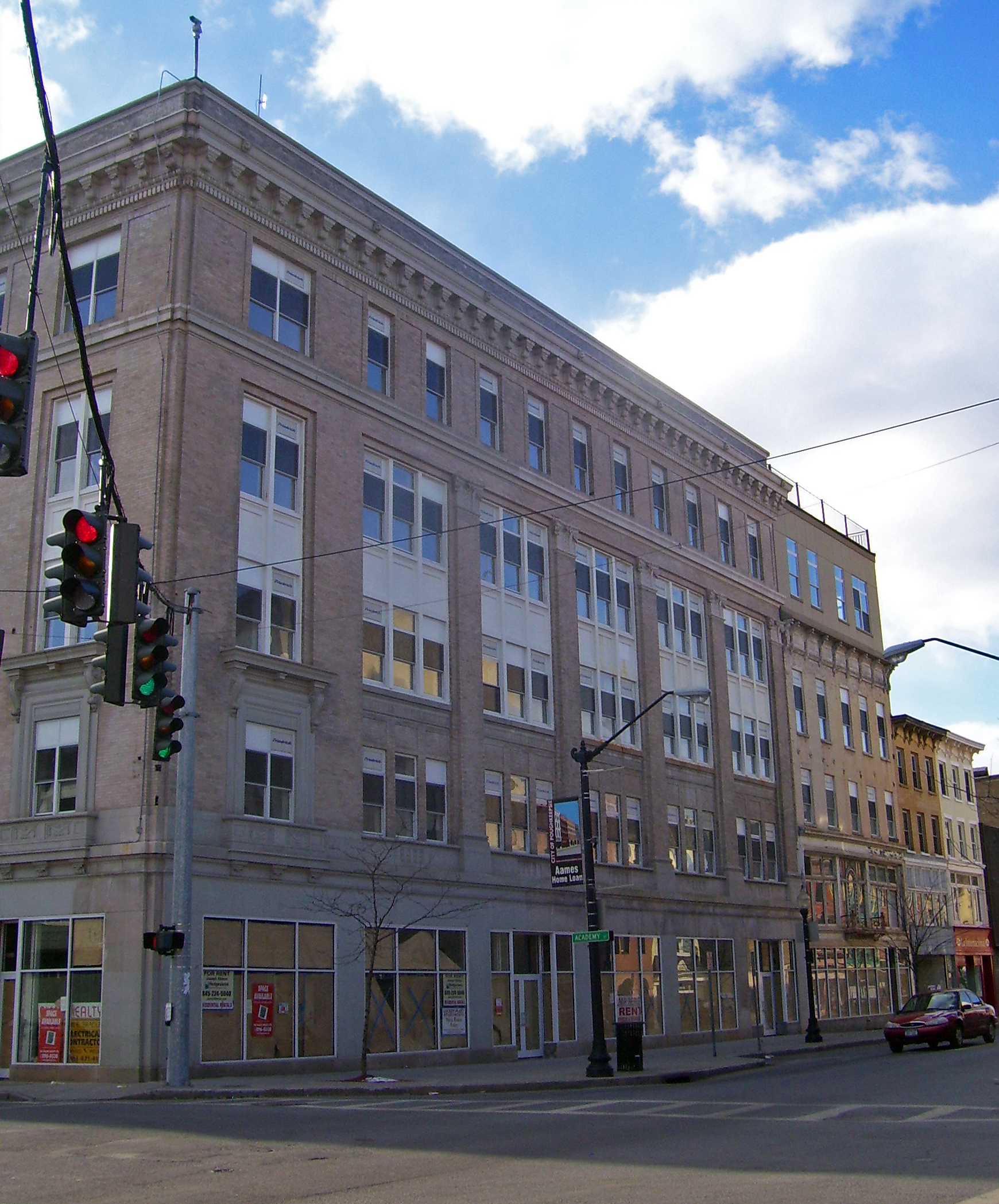 Luckey Platt store building in Poughkeepsie, NY, USA